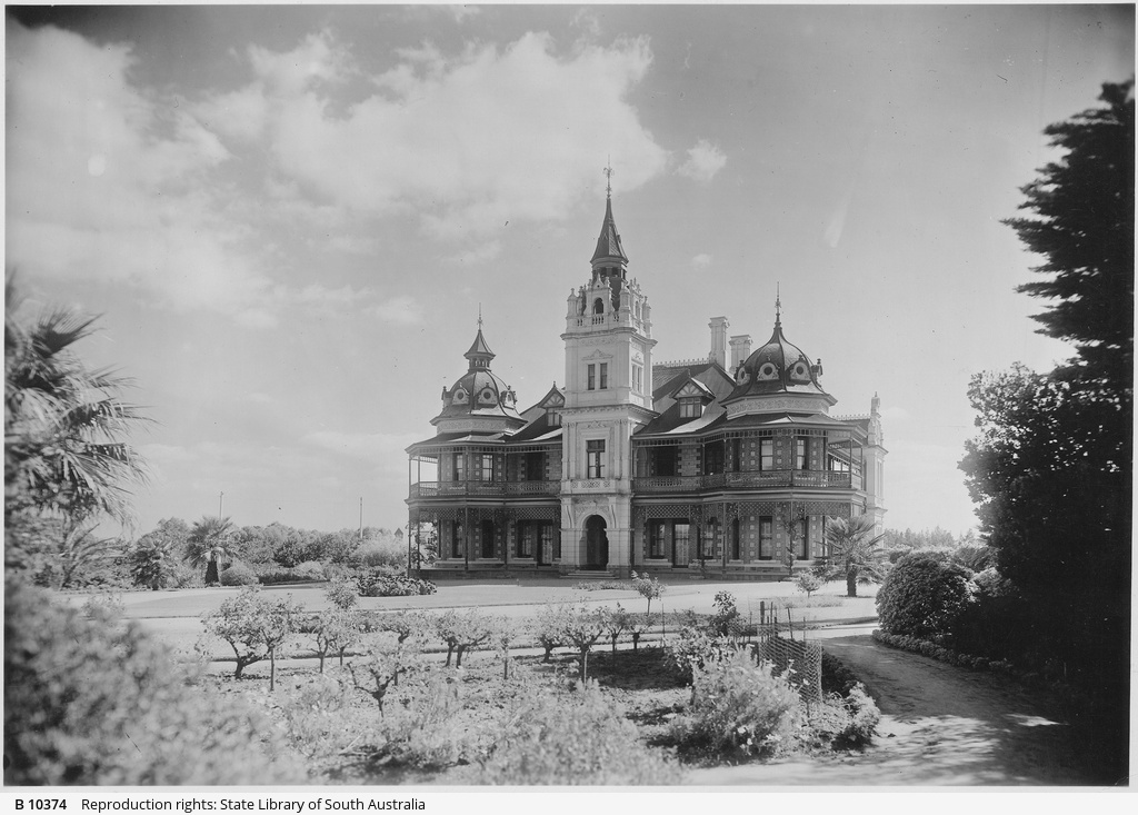 Tranmere House, Magill Road, Tranmere. For brief notes on the house see Cockburn's "Nomenclature of South Australia". This mansion was built in 1898 for George Hunt who was a merchant owning four large shops on Rundle Street opposite Adelaide Arcade. He built his mansion on a block of land previously owned by George Morphett. It was surrounded by a magificent garden.